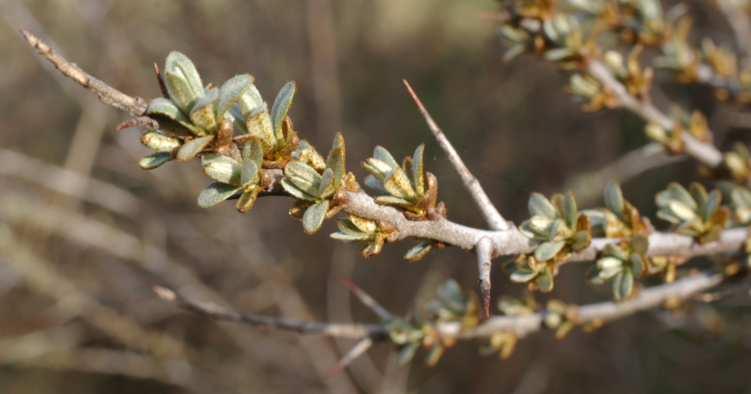 Flowers of a female sea-buckthorn